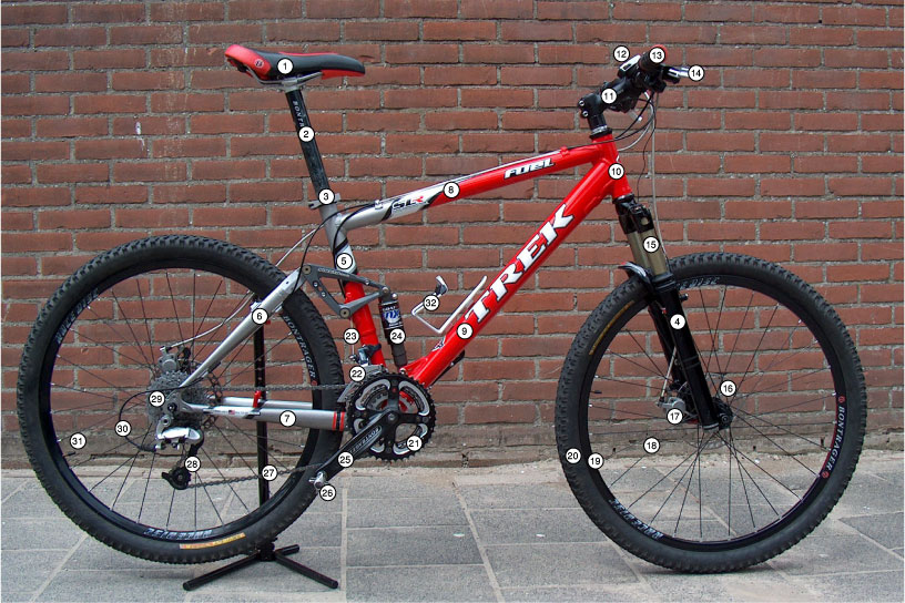 A mountain bike aith numbered parts